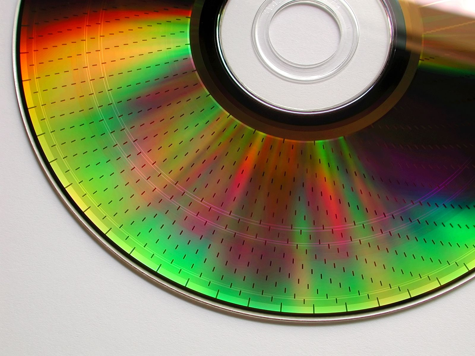 Play of colours on the data side of a type III 4.7 GB DVD-RAM. The pre-embossed sector headers form a visible pattern.